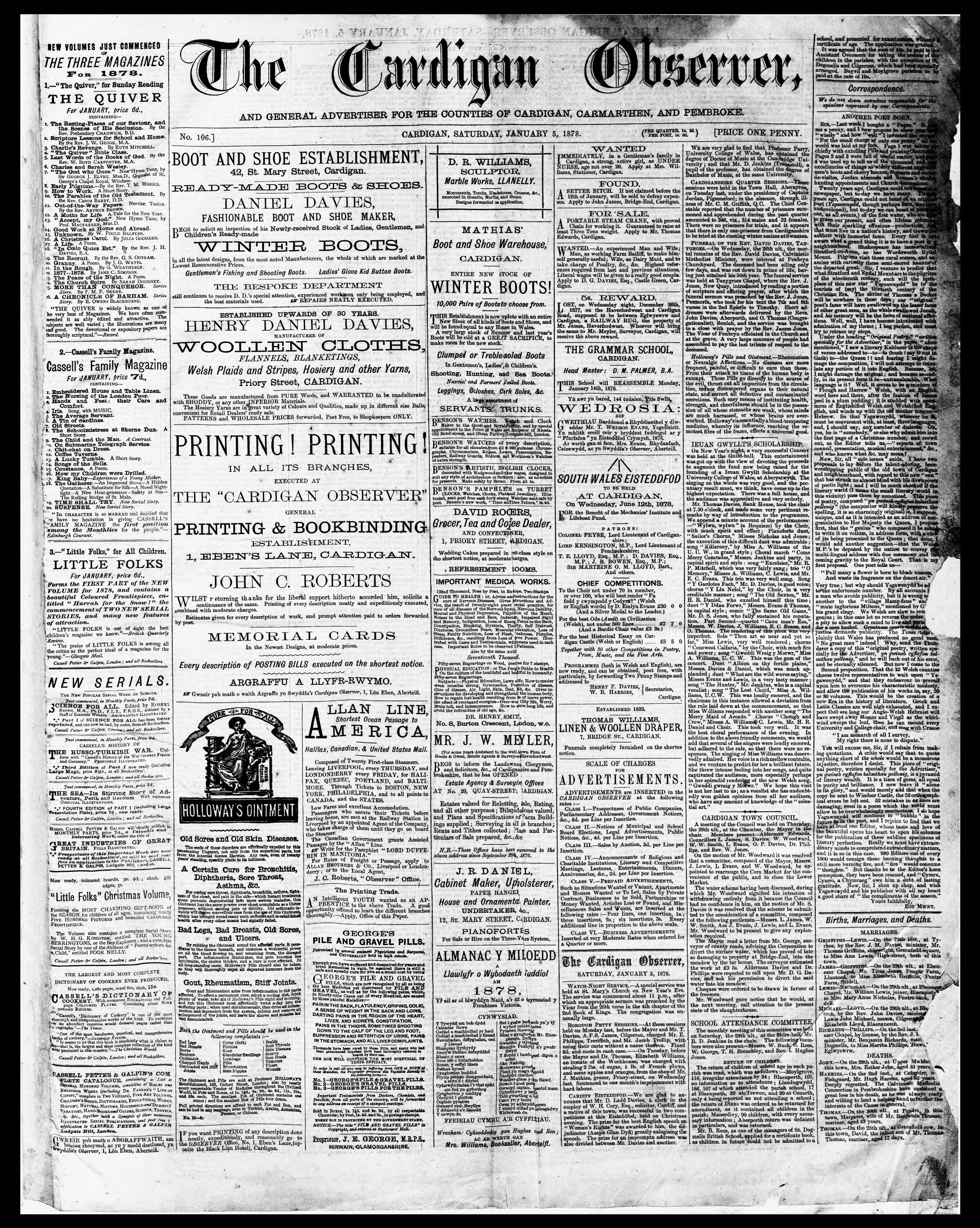 Front page of the earliest surviving copy of the Welsh newspaper The Cardigan Observer